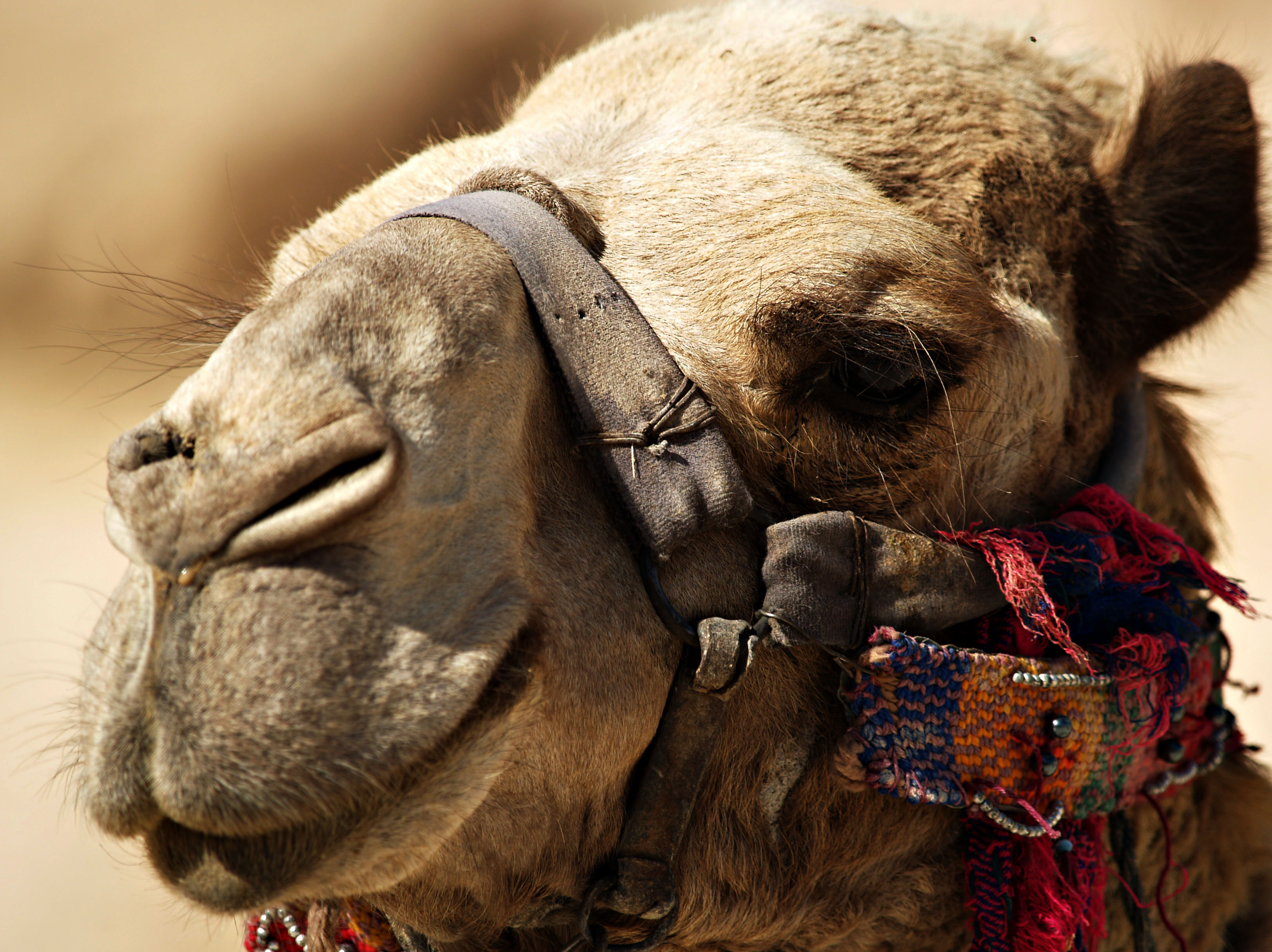 Camel on the road to Masada by Dainis Matisons